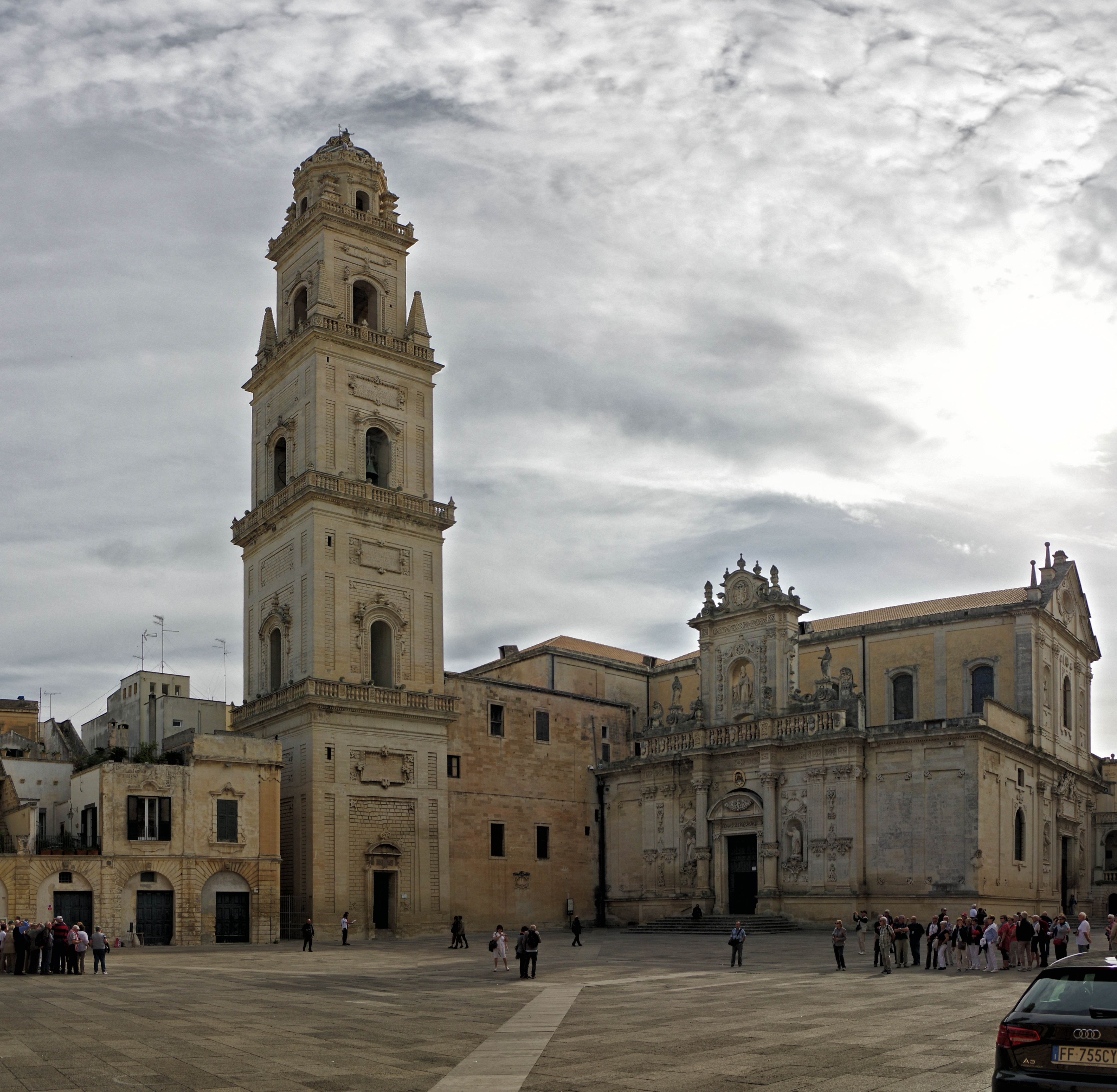 Italy, Lecce, Cathedral Santa Maria dell'Assunta